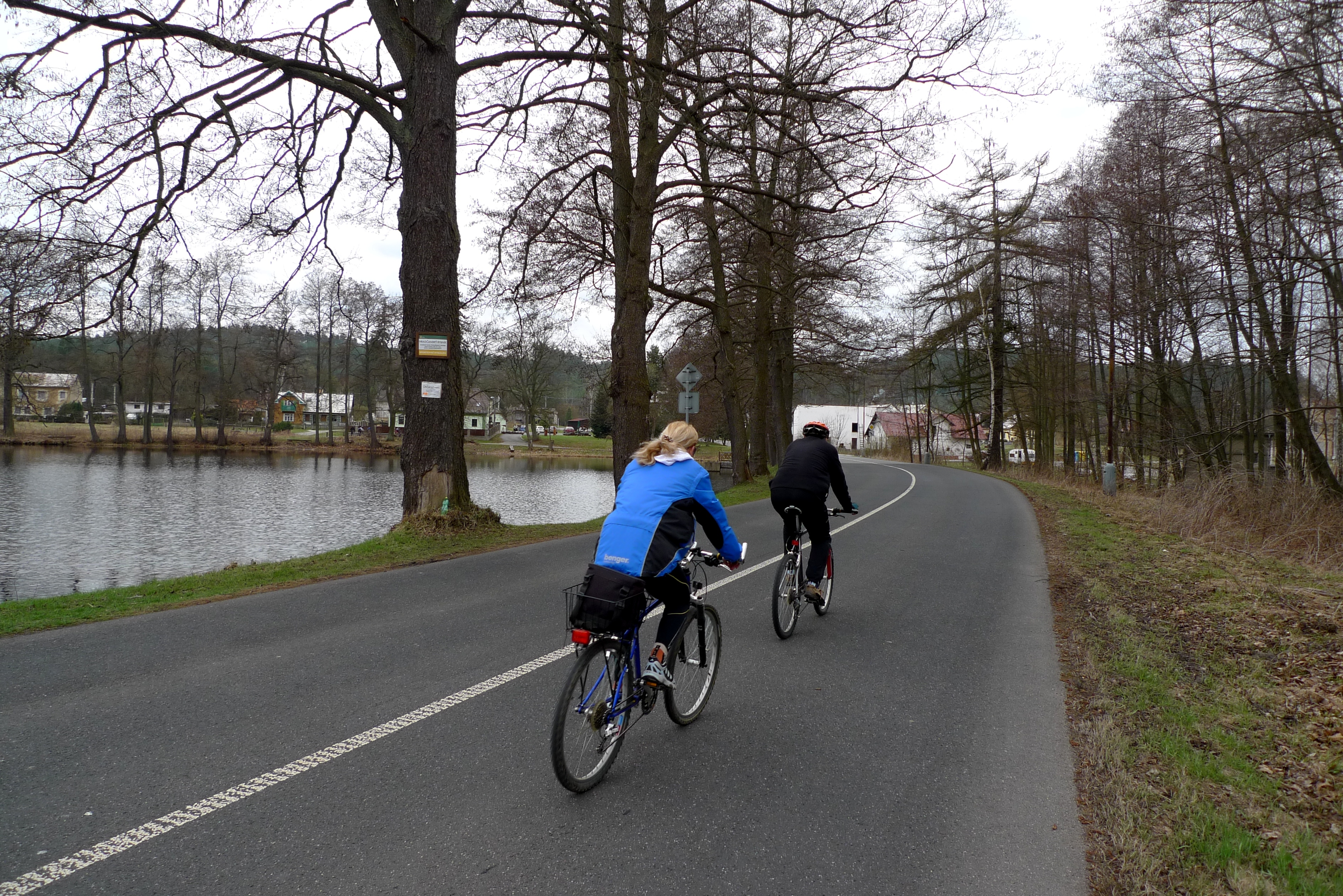 Ralsko-Hradčany, Czech Republic Česky: Silnice skrz Ralsko-Hradčany